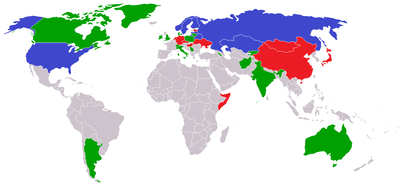 Participation in the Bandy World Championship in 2016. Blue: Division A. Red: Division B. Green: members of the Federation of International Bandy not participating in the World Championship this year.